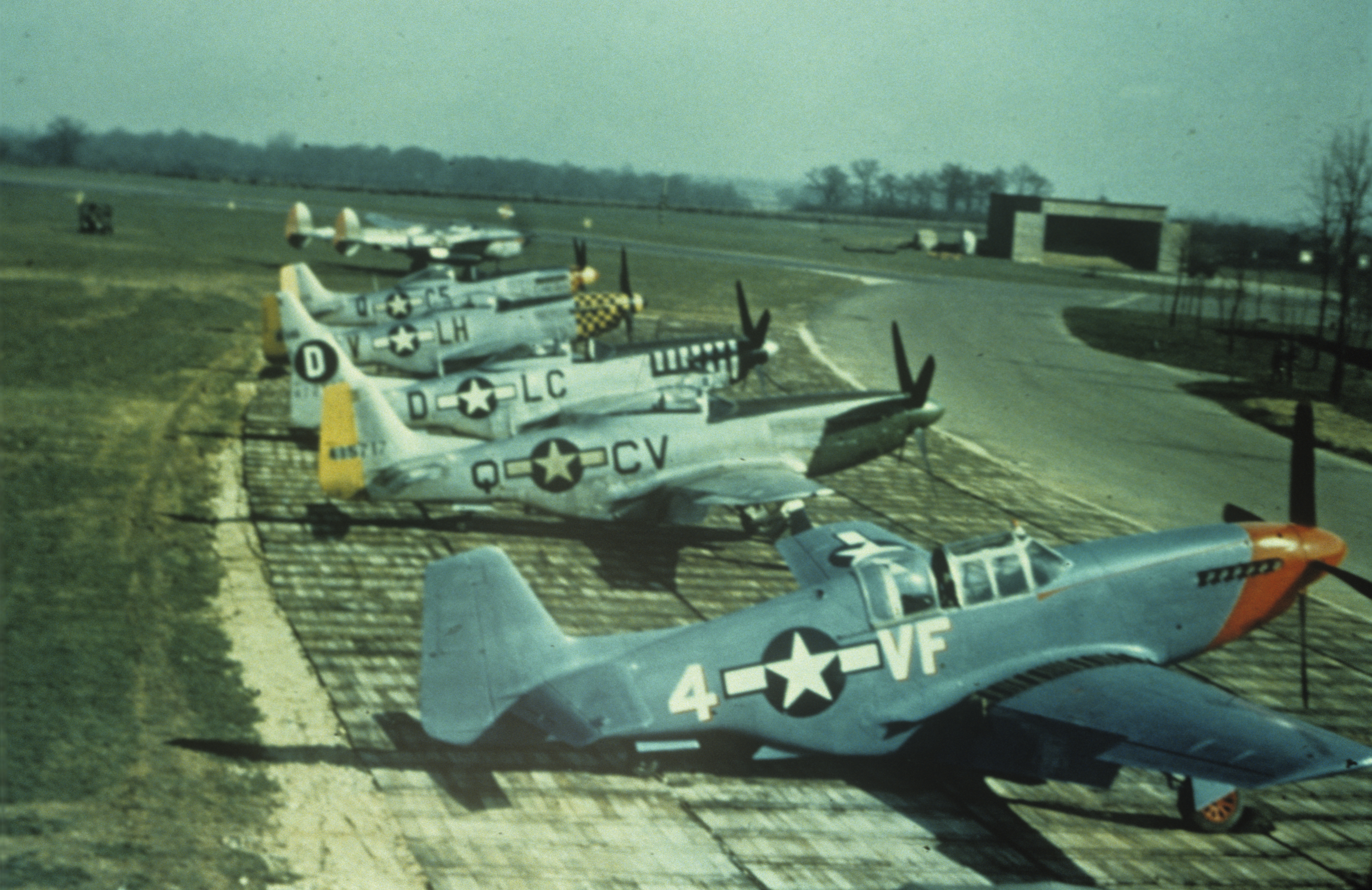 P-51 Mustangs (VF-4) [42-106894] of the 4th Fighter Group, (CV-Q)[44-15711] of the 359th Fighter Group, (LC-D)[44-13852] of the 20th Fighter Group, (LH-V) of the 353rd Fighter group, and (C5-Q) of the 357th Fighter Group, with a F-5E Lightning of the 7th Photographic Reconnaissance Group